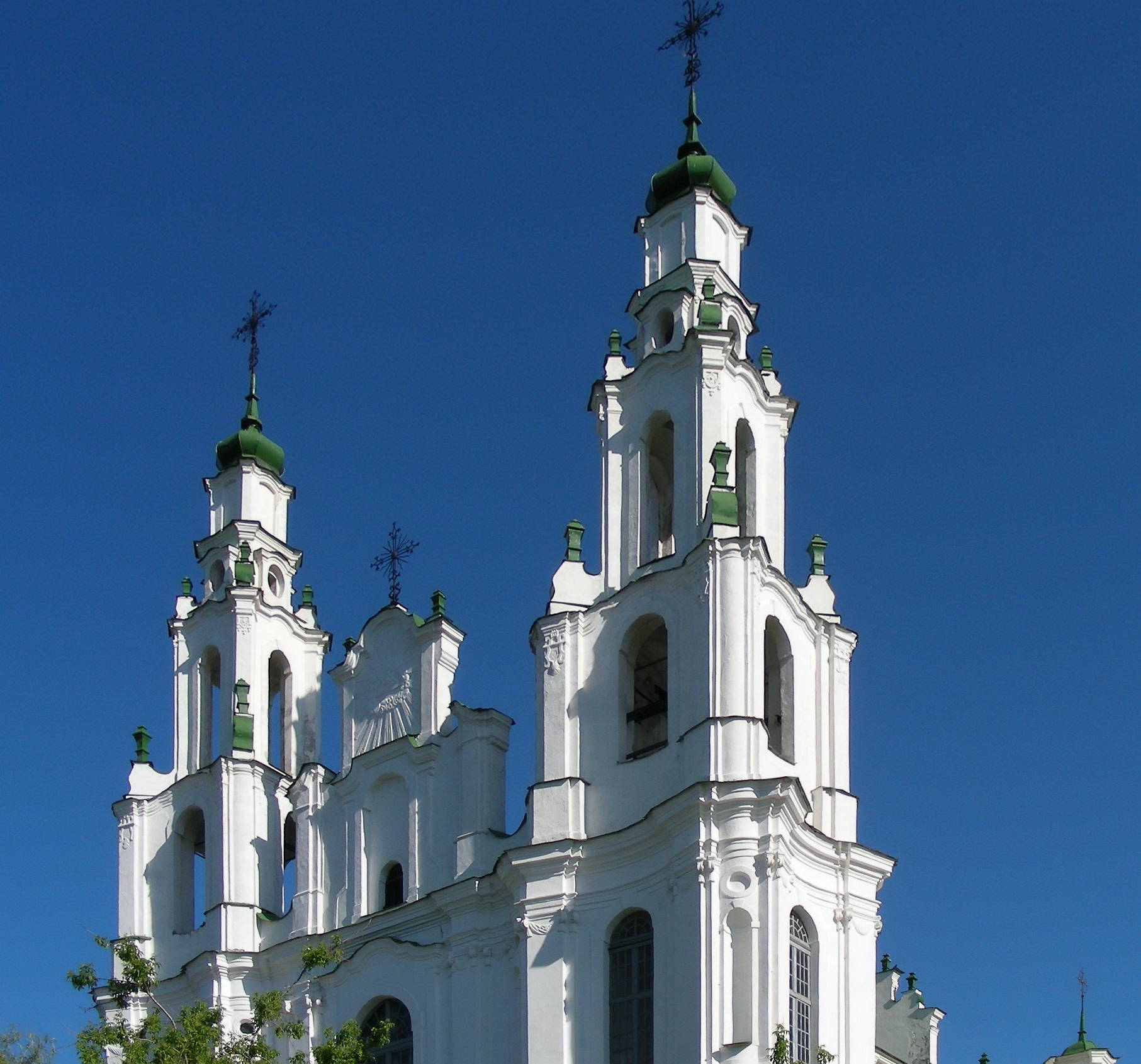 BELARUS / POLOTSK. St Sophia сathedral (XI-XVIII century).